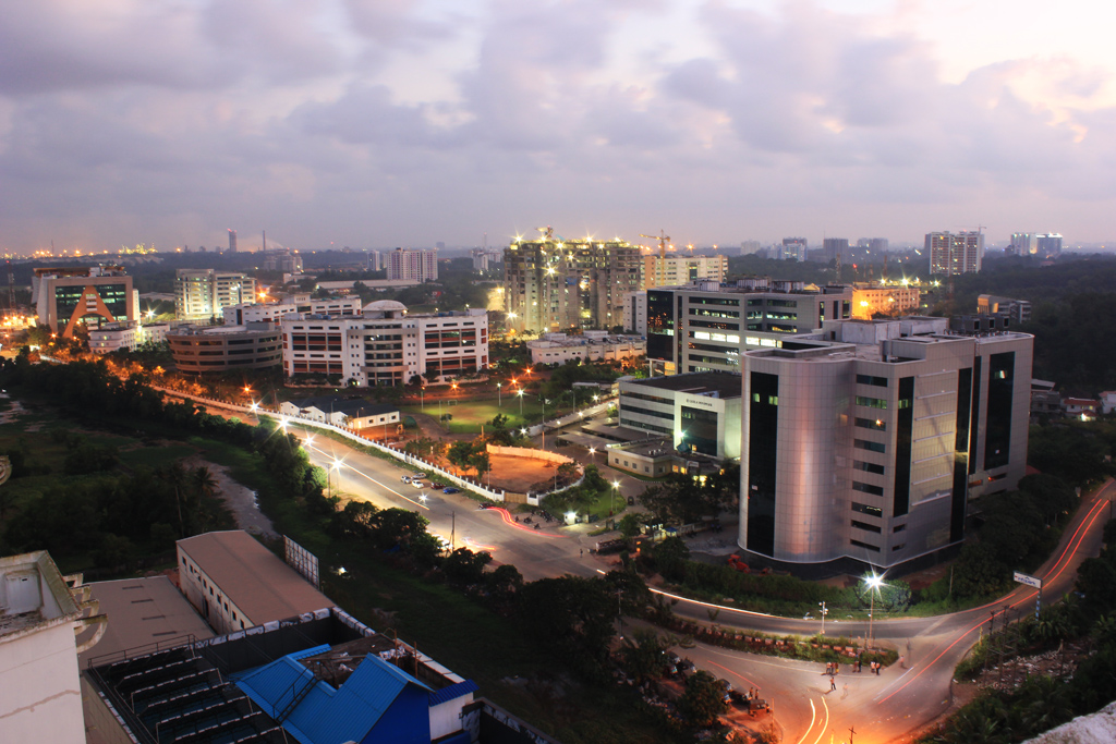 Infopark, Kakkanad, Kochi, Kerala, India